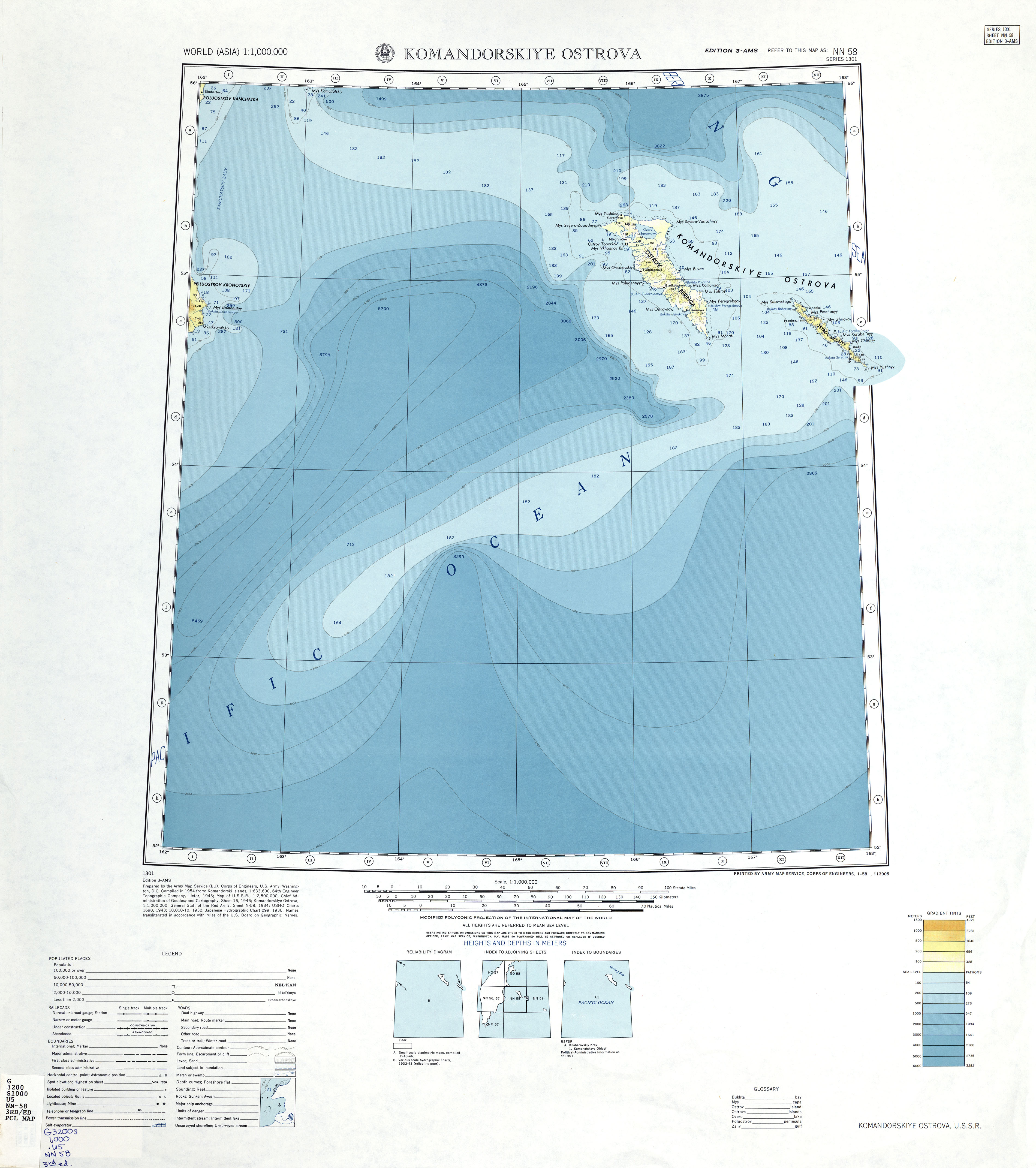 International Map of the World 1:1,000,000 Sheet: NN58 Komandorskiye Ostrova